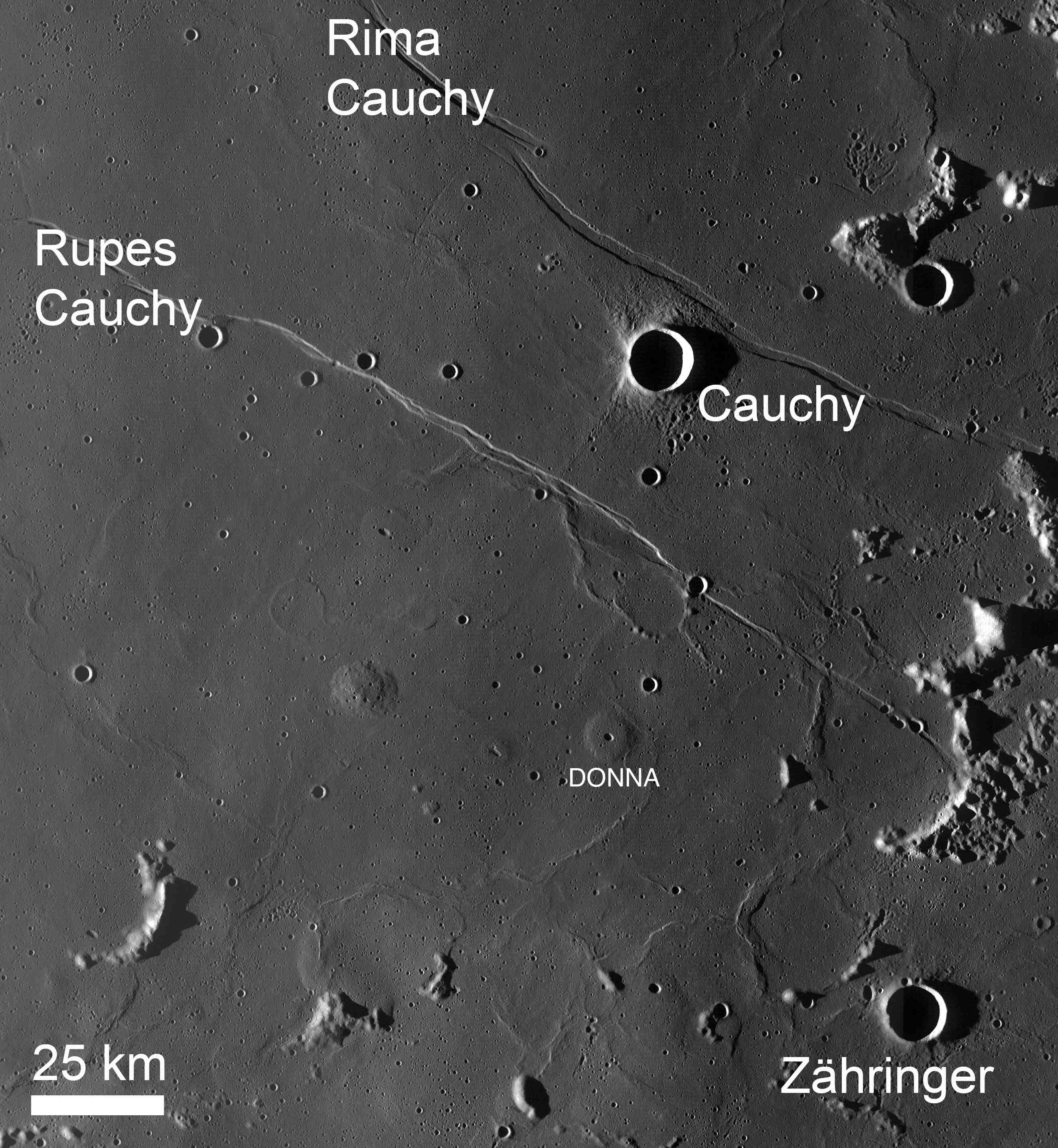 WAC mosaic of the Rupes Cauchy region in Mare Tranquillitatis. M117257057ME, M117243496ME, M117236702ME, and M117229932ME [NASA/GSFC/Arizona State University].